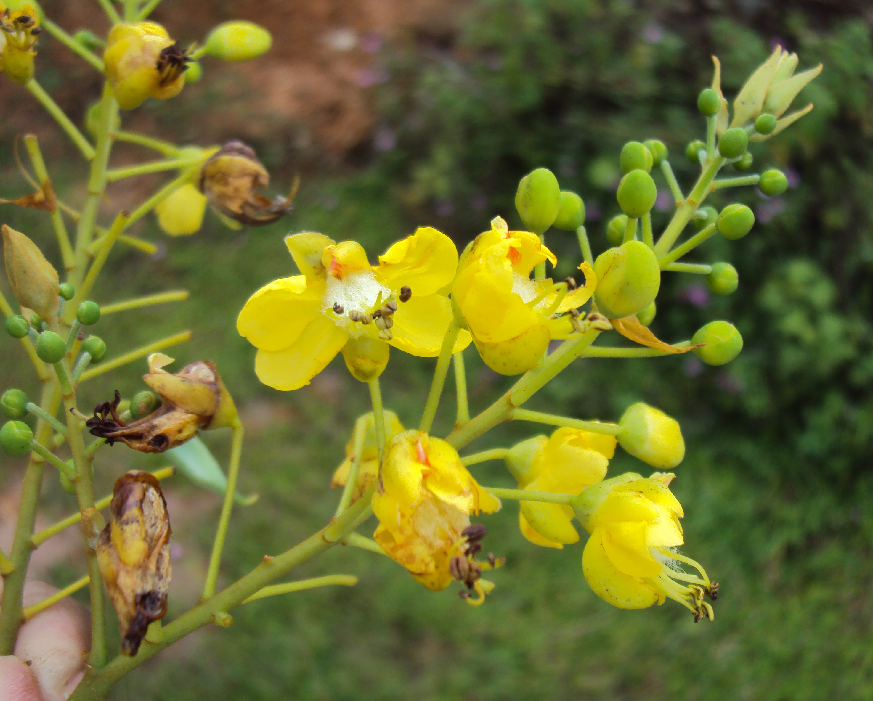 Caesalpinia sappan flowers